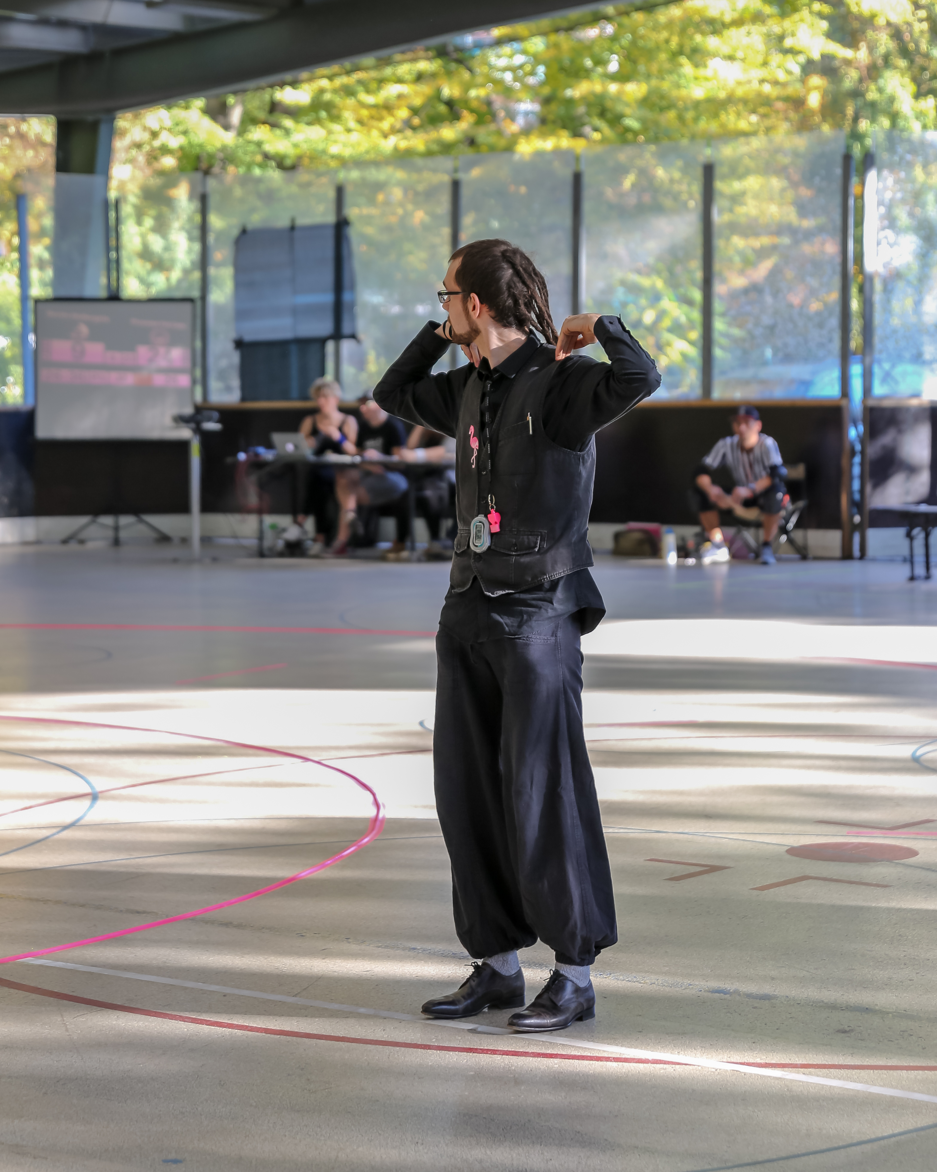 Berlin Rollt 2018